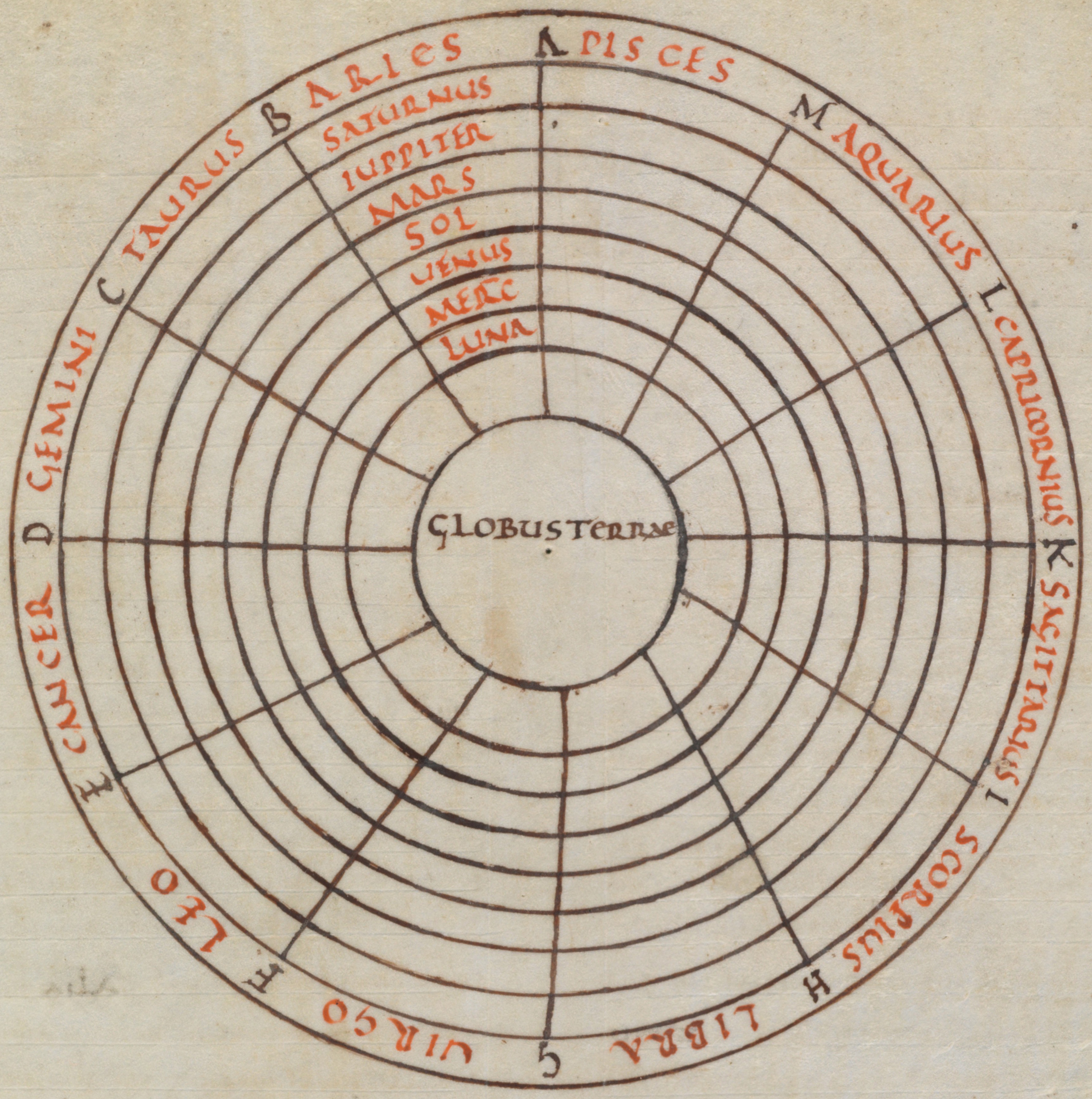 Macrobian Diagram of the Planets.